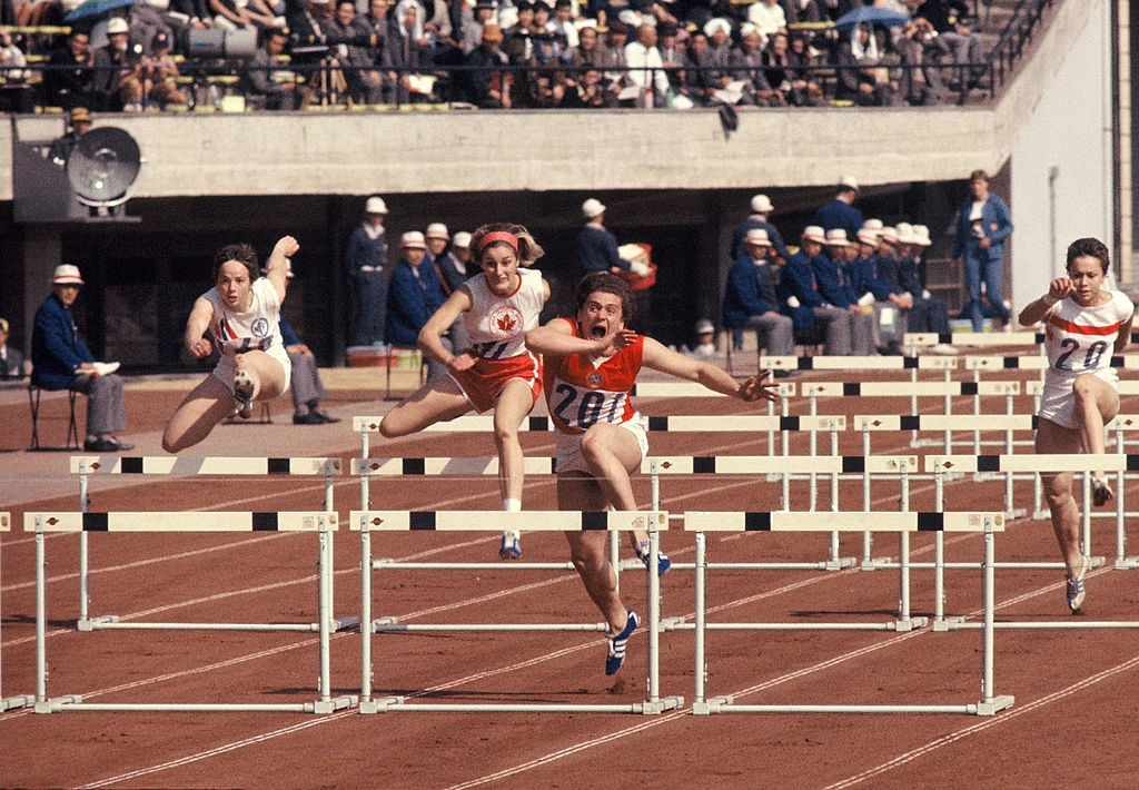 80 m hurdles at the pentathlon, 1964 Olympics. Left-right: Oddrun Hokland, Dianne Gerace, Irina Press, Ulla Flegel